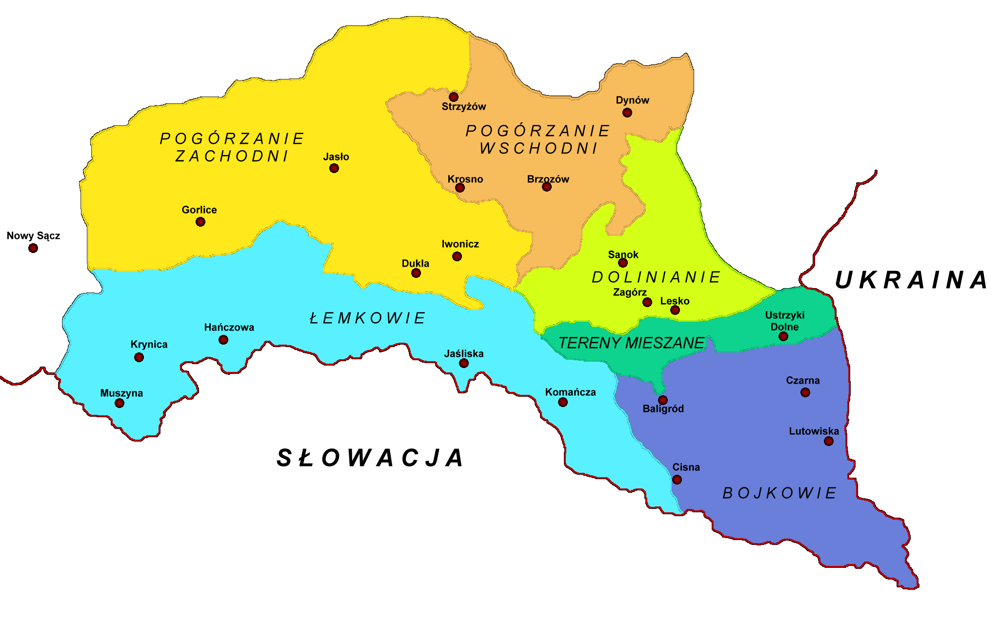 Map showing the ranges of Carpathian highlander ethnic groups in southeastern Poland. Pogórzanie Wschodni, Pogórzanie Zachodni, Dolinianie, Łemkowie, Bojkowie